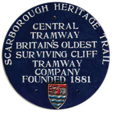 Central Tramway Company Heritage Blue Plaque marking the oldest surviving Tramway Company in Great Britain.